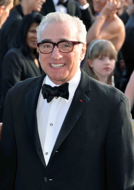 Martin Scorsese at the 2010 Cannes film festival